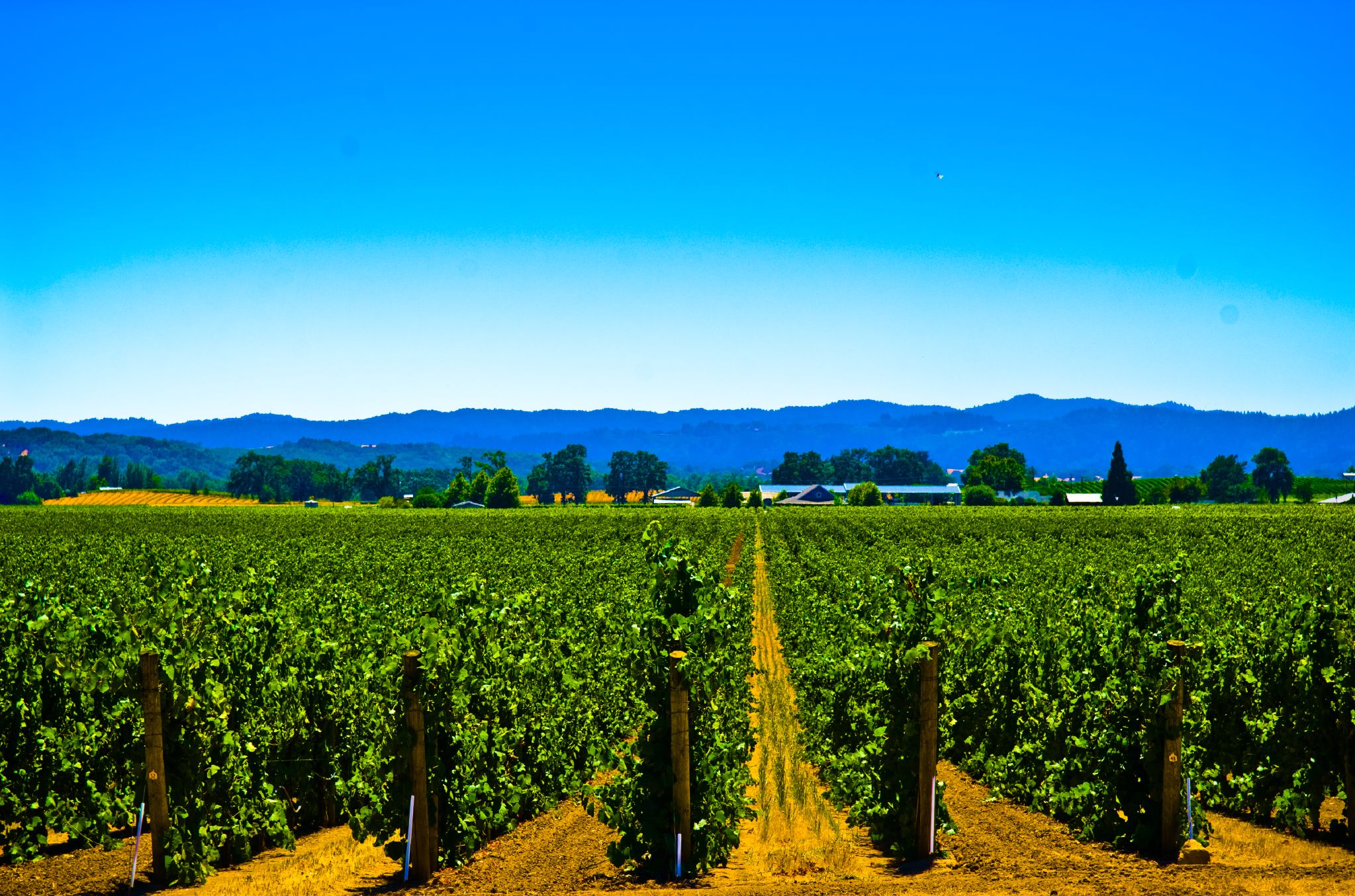 Robert Young Vineyards, Alexander Valley, Sonoma County, California, USA.